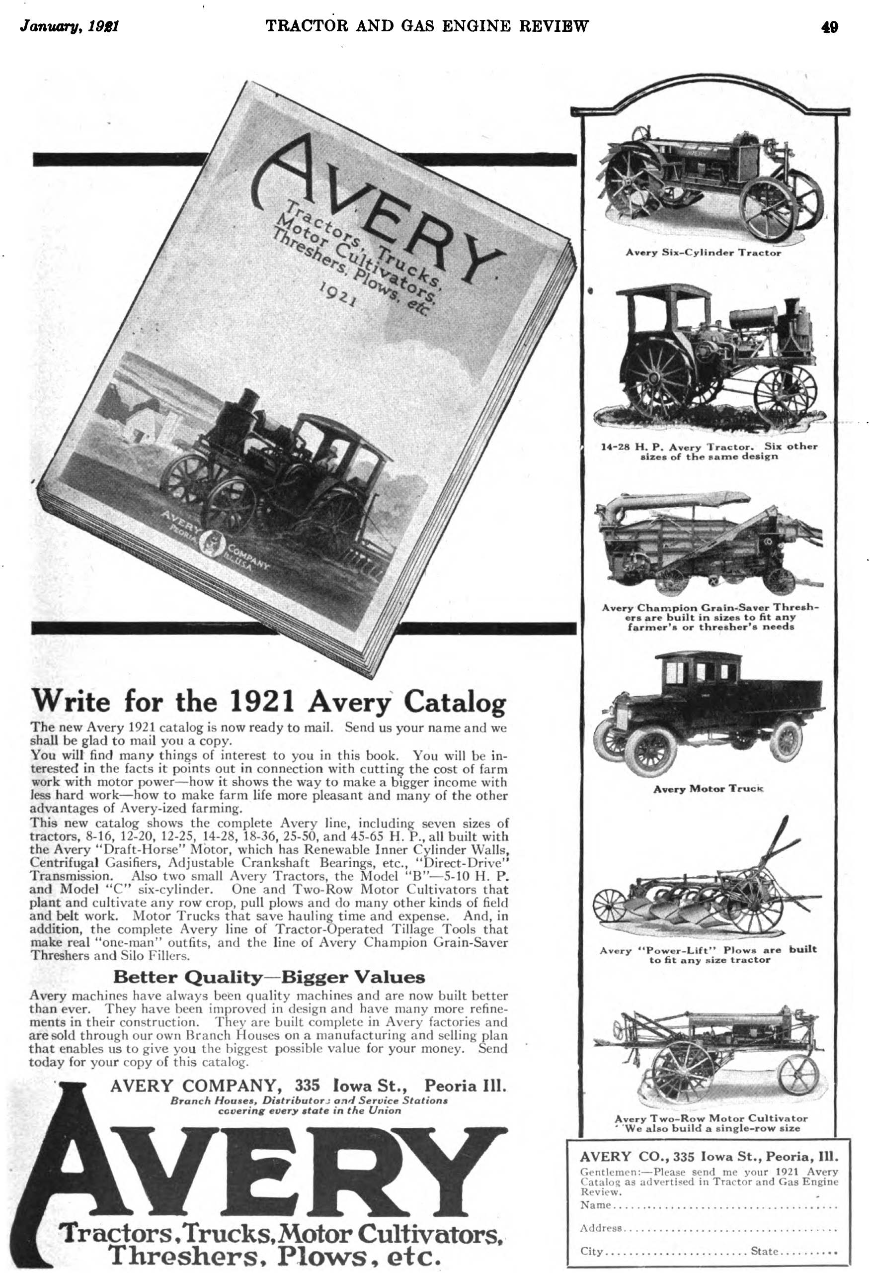 An advertisement for the Avery Company in Tractor and Gas Engine Review, volume 14, number 1, January 1921, page 49. Its product line for 1921 included tractors, trucks, threshers, plows, motor cultivators, and other implements.